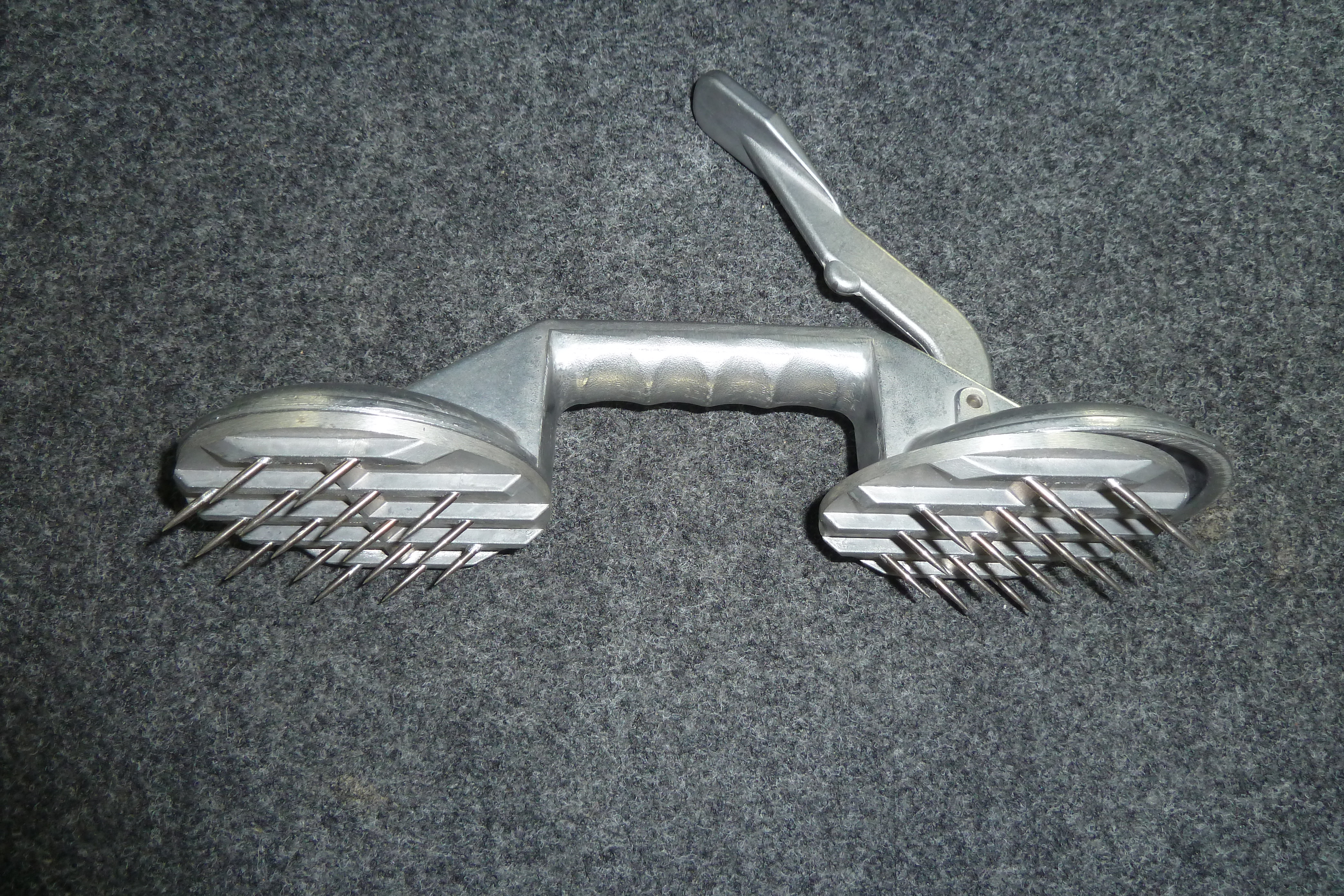 Open panel lifter, side view Disk on the right side shifted to the left